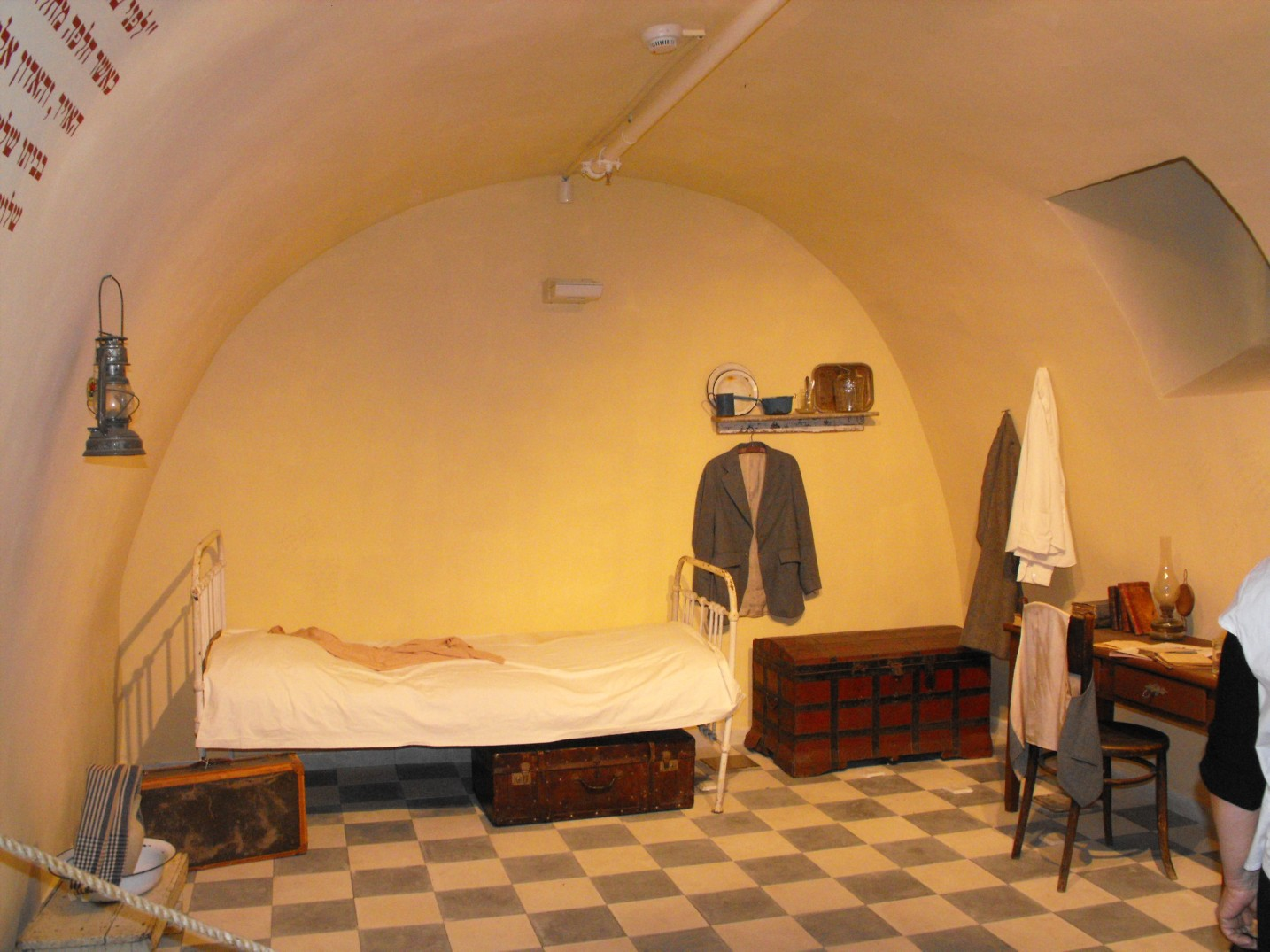 Geography of Israel